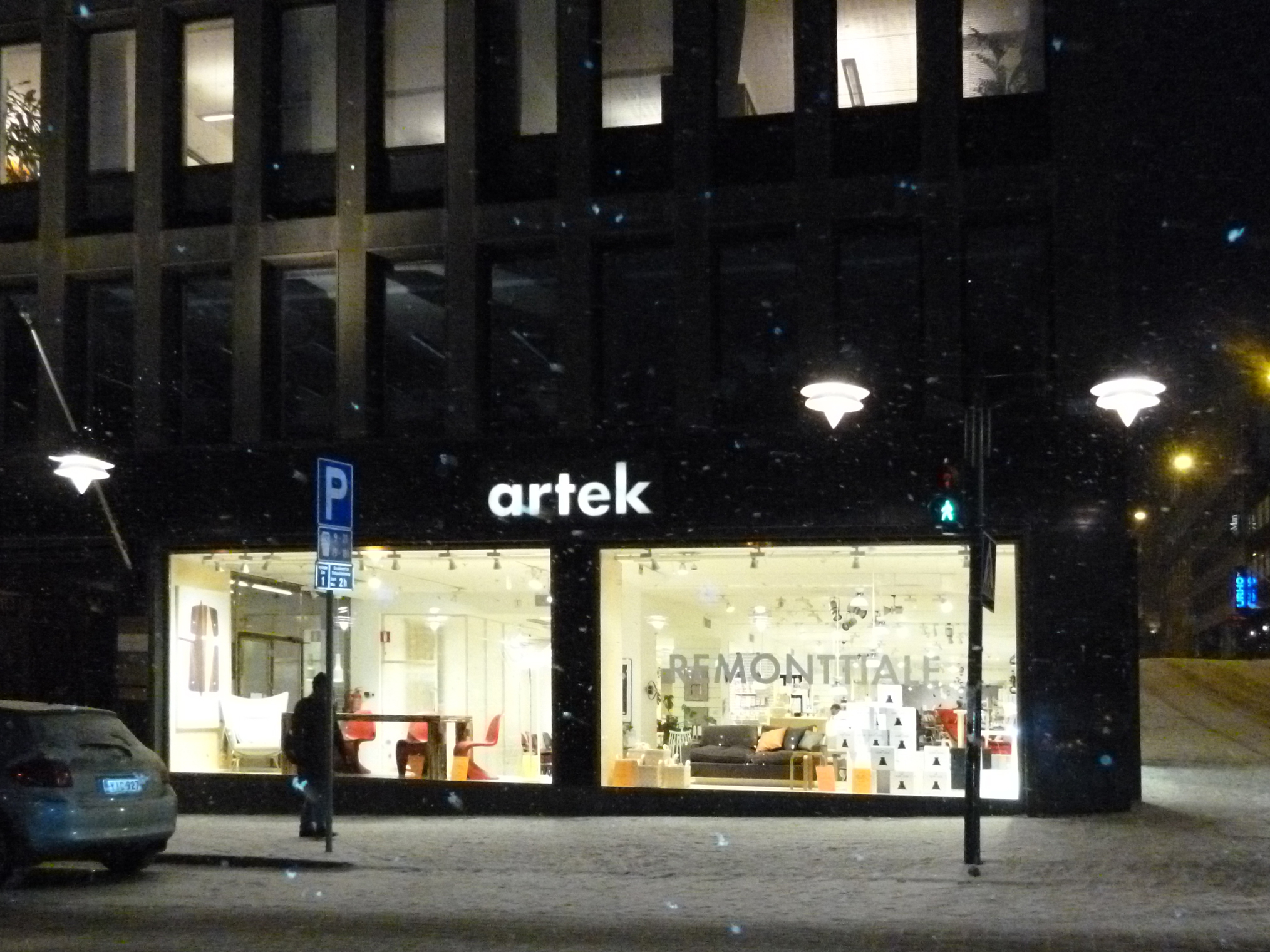 Artek storefront, Helsinki